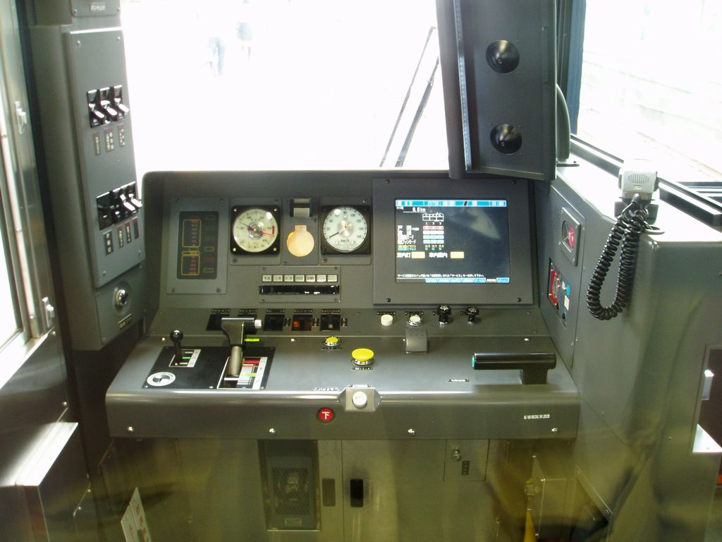 Cockpit of Central Japan Railway Company, EMU Type 313.